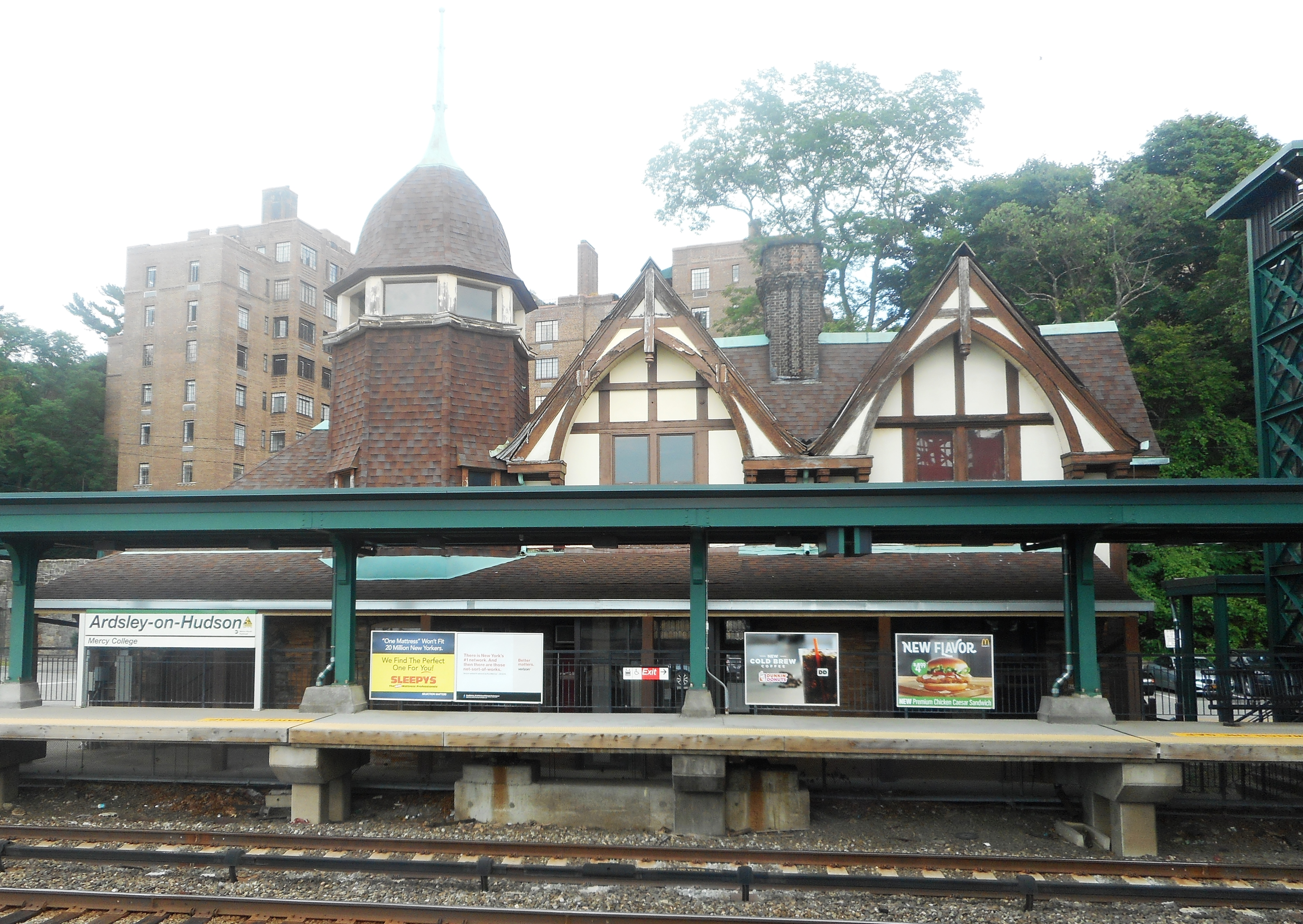 The distinguished station house of the Ardsley-on-Hudson Metro-North station on the Metro-North Hudson Line in Irvington, New York. The station was designed to match that of the nearby the "Ardsley Casino" Country Club, now occupied by the Hudson House Apartments. Further details and a rename will come later, but I can't guarantee when either of these will take place.